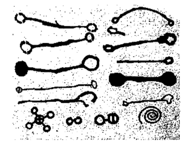 Karatau′s solar signs. 2nd millennium BC.